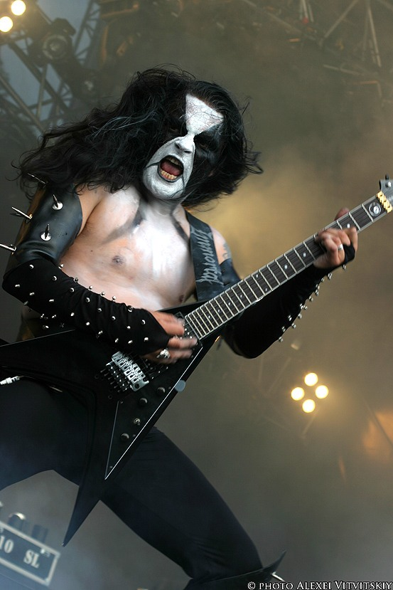 Abbath during the Immortal concert at the 2007 Tuska Open Air Metal Festival.